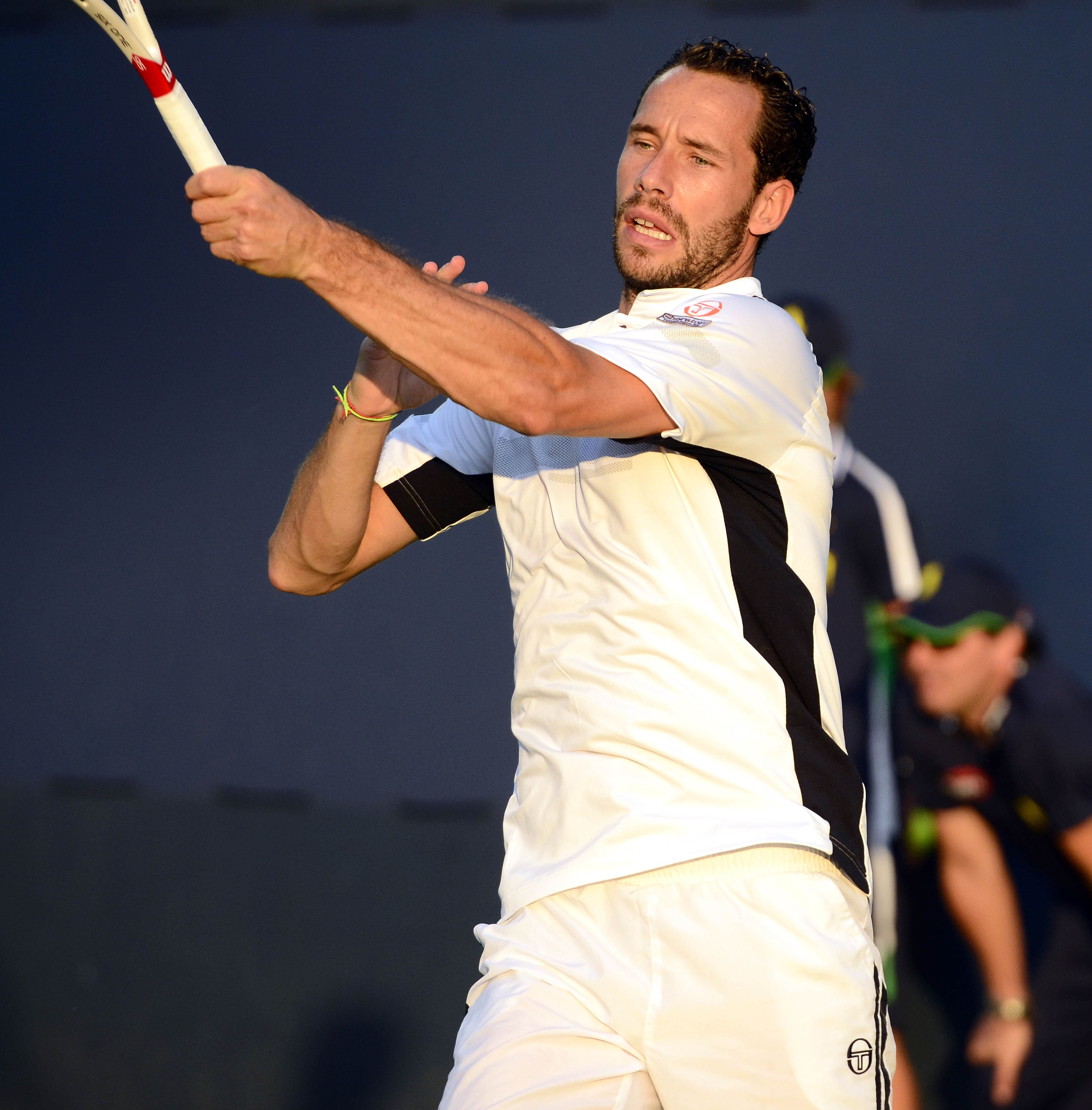 March 26, 2014 Queens, NY Michael Llodra and Nicolas Mahut (FRA) def. Peter Kobelt and Hunter Reese (USA)